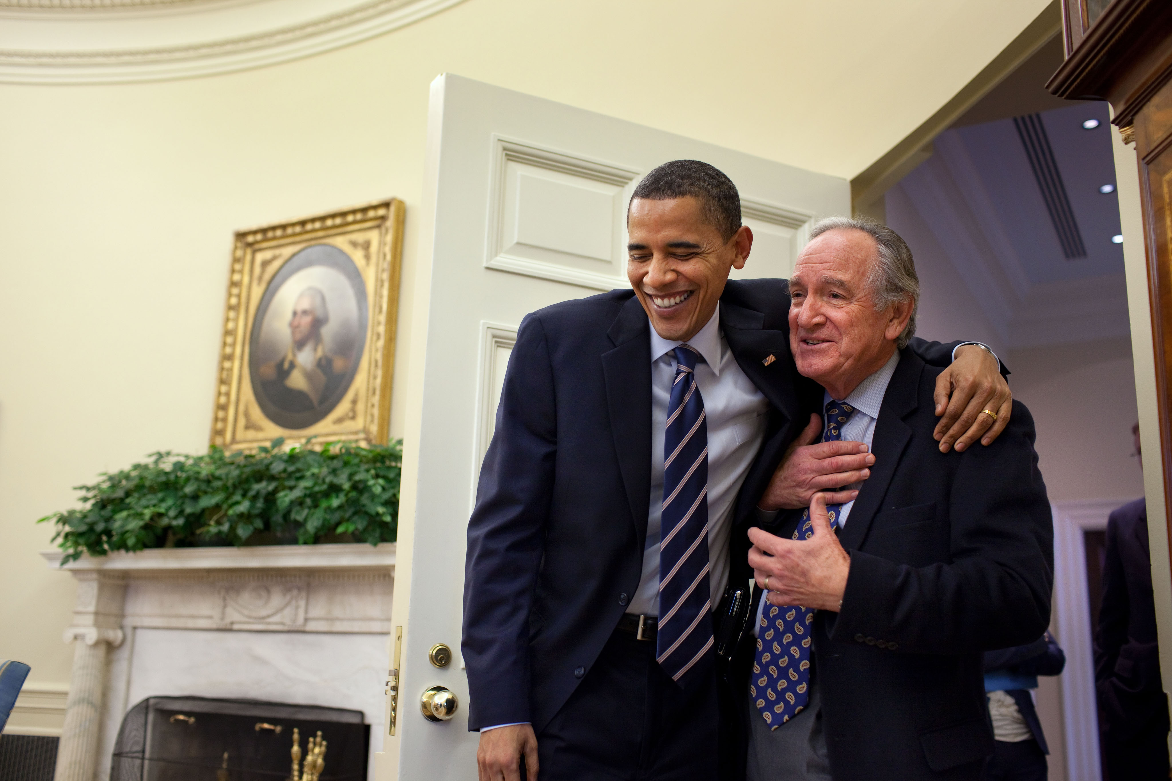 March 22, 2010 "The day after the health care bill passed, the President greeted Sen. Tom Harkin at the door of the Oval Office before a meeting with the Senate Democratic Leadership." (Official White House Photo by Pete Souza) This official White House photograph is in the public domain from a copyright perspective, so while restrictions such as personality or privacy rights may apply, in general, manipulations are allowed.